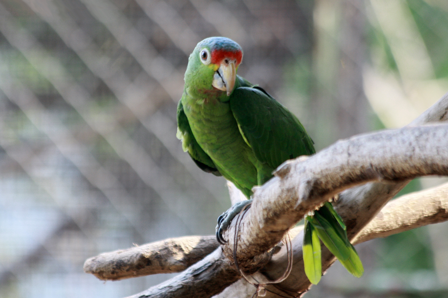 A Red-lored Amazon at the National Zoo of Nicaragua.